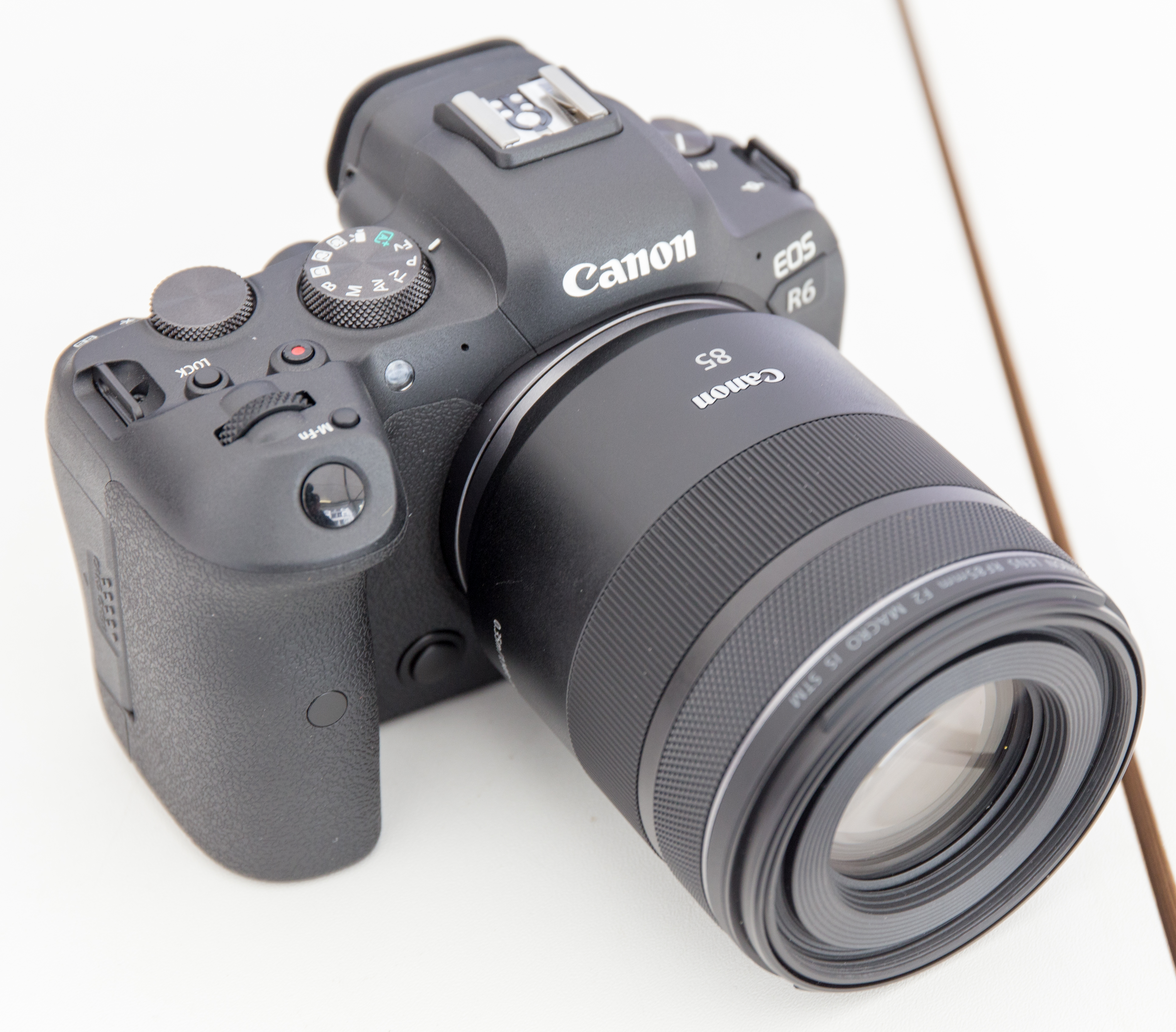 Canon EOS R6 with Canon RF 85mm F2 MACRO IS STM